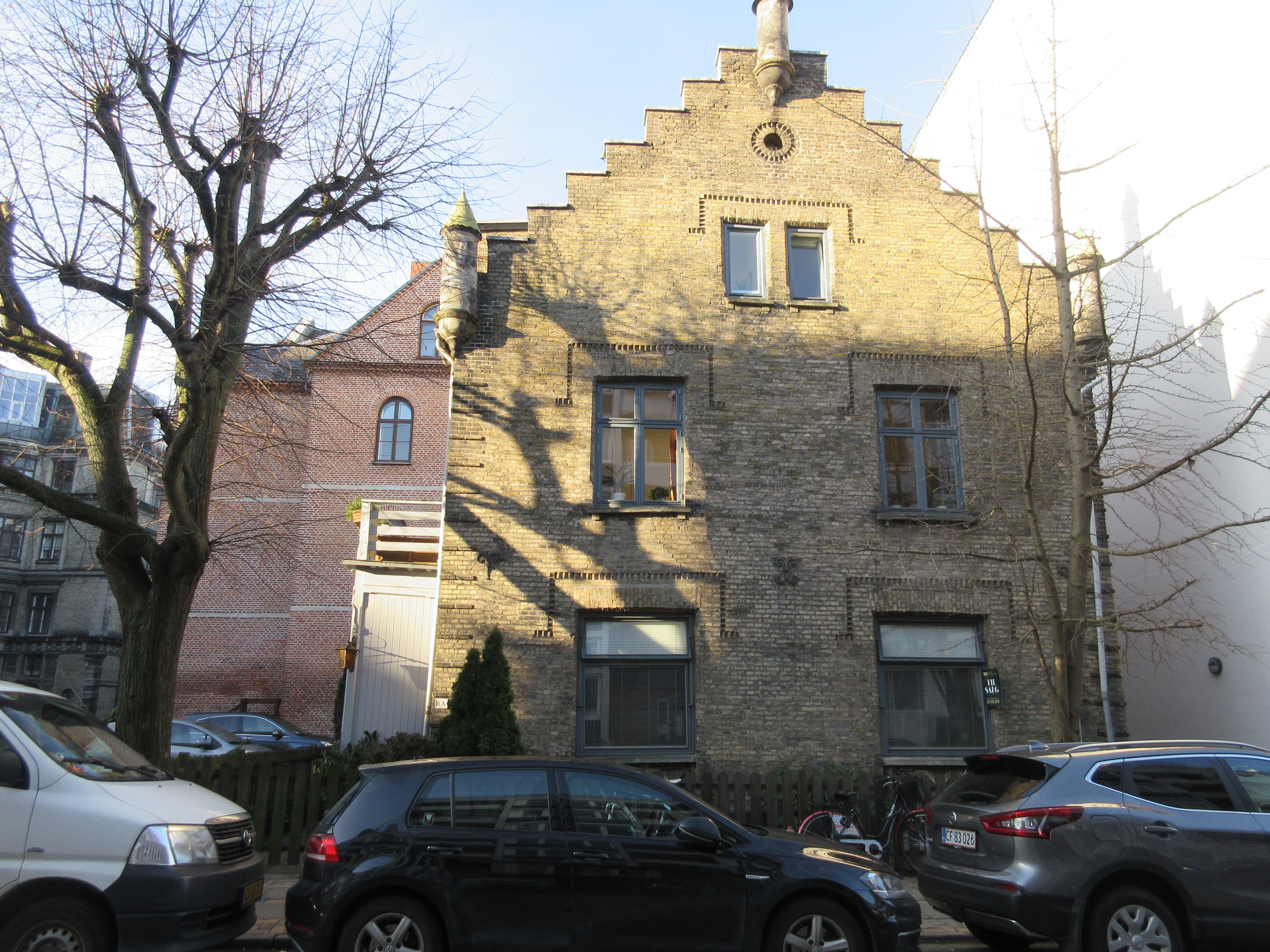 Bianco Lunos Allé 1A in Frederiksberg, Denmark